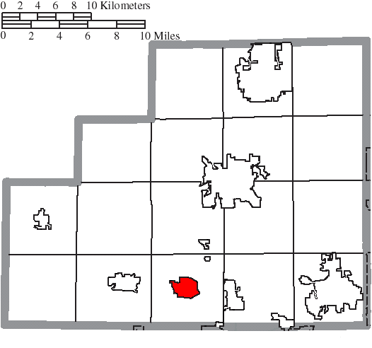 Map of the municipal and township boundaries of Medina County, Ohio, United States, as of the 2000 census, with the location of the village of Westfield Center highlighted. Township borders are shown only in unincorporated areas in order to differentiate incorporated and unincorporated areas more clearly.